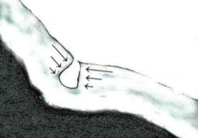 crevasse (2)